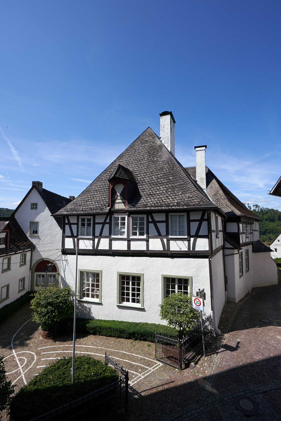 The front side of the Weichs´scher Hof